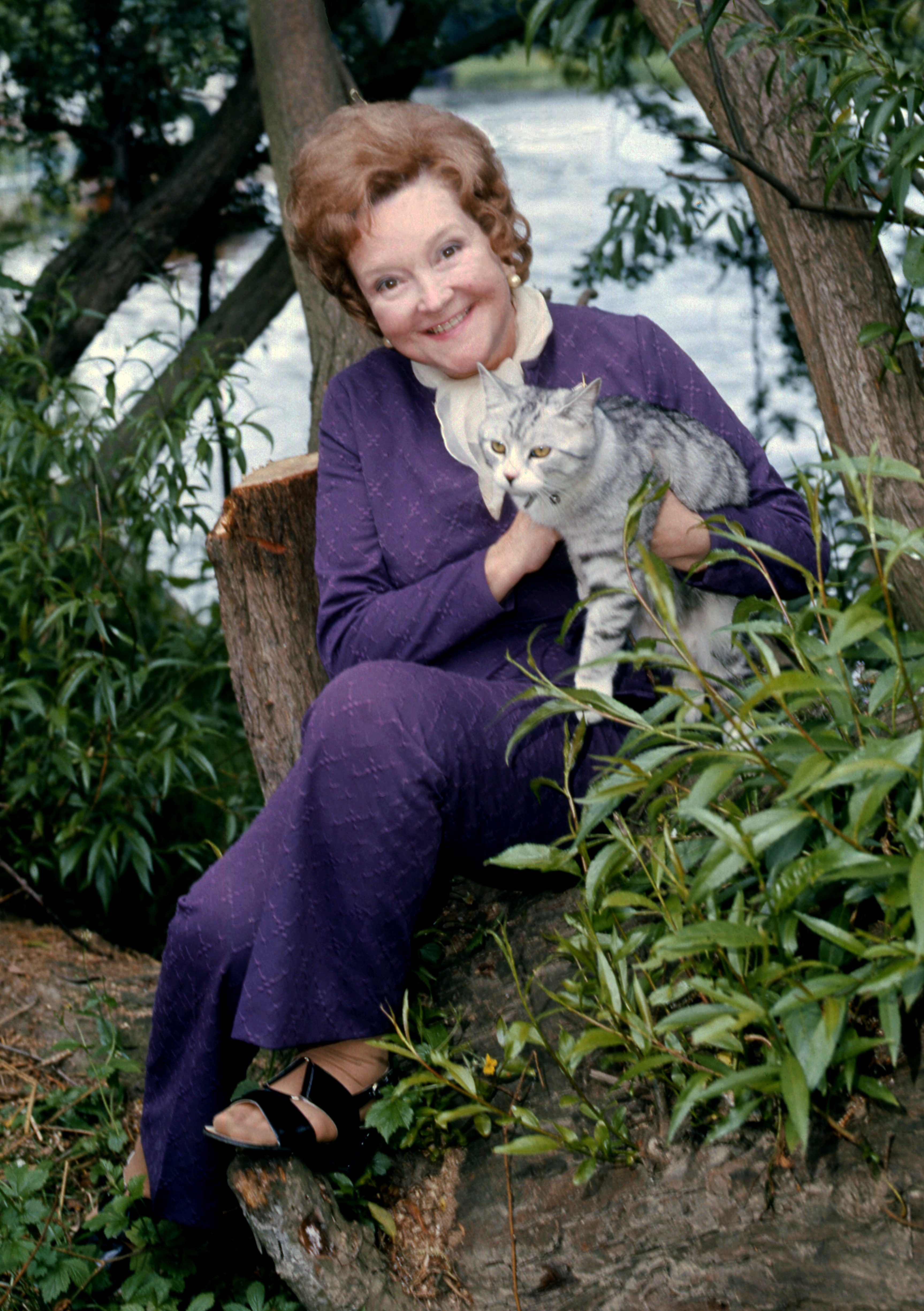 Bery Reid in her garden